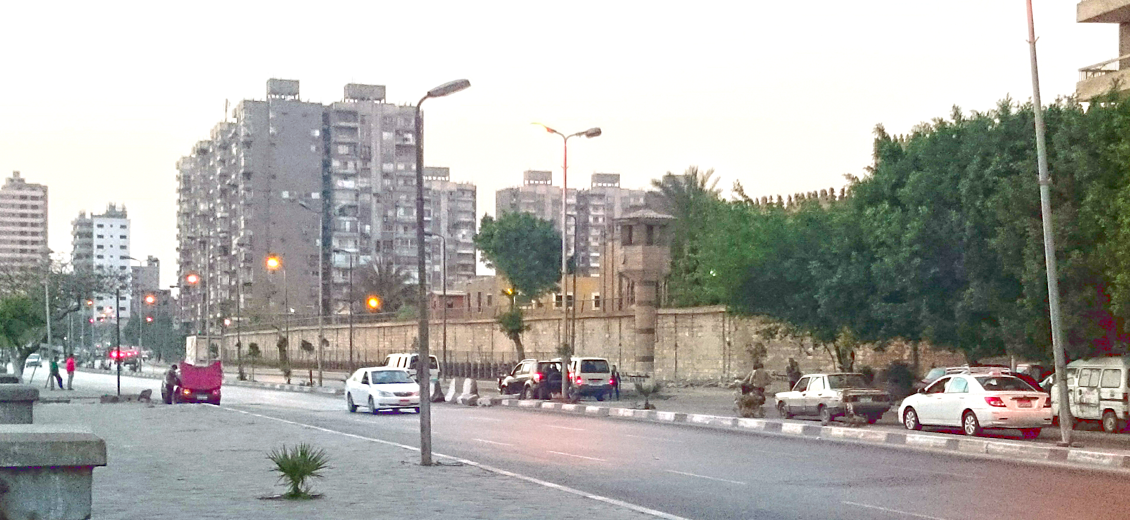 Tora Jail in Cairo